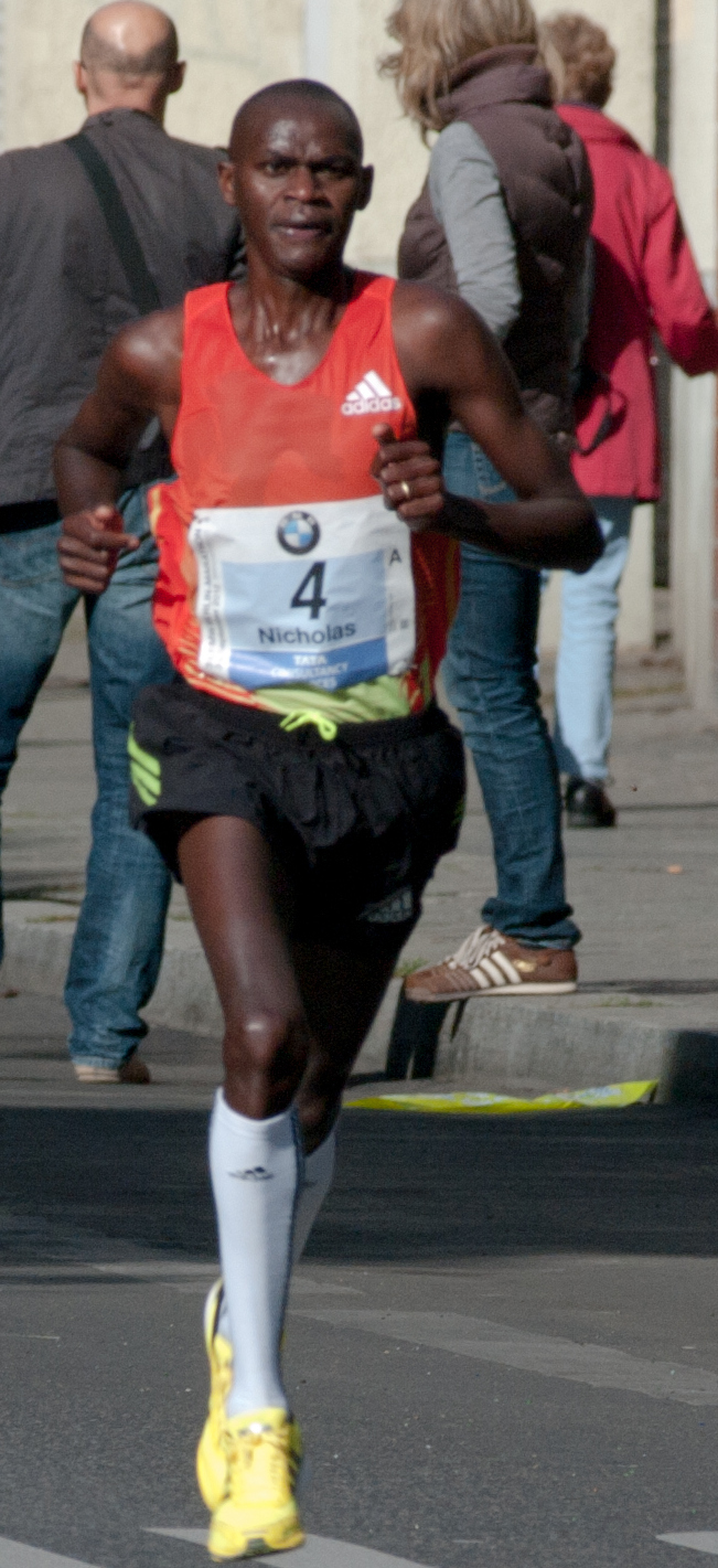 Kenyan runner Nicholas Kamakya at the Berlin Marathon 2012. Here on Bülowstraße, between Kilometers 36 and 37.